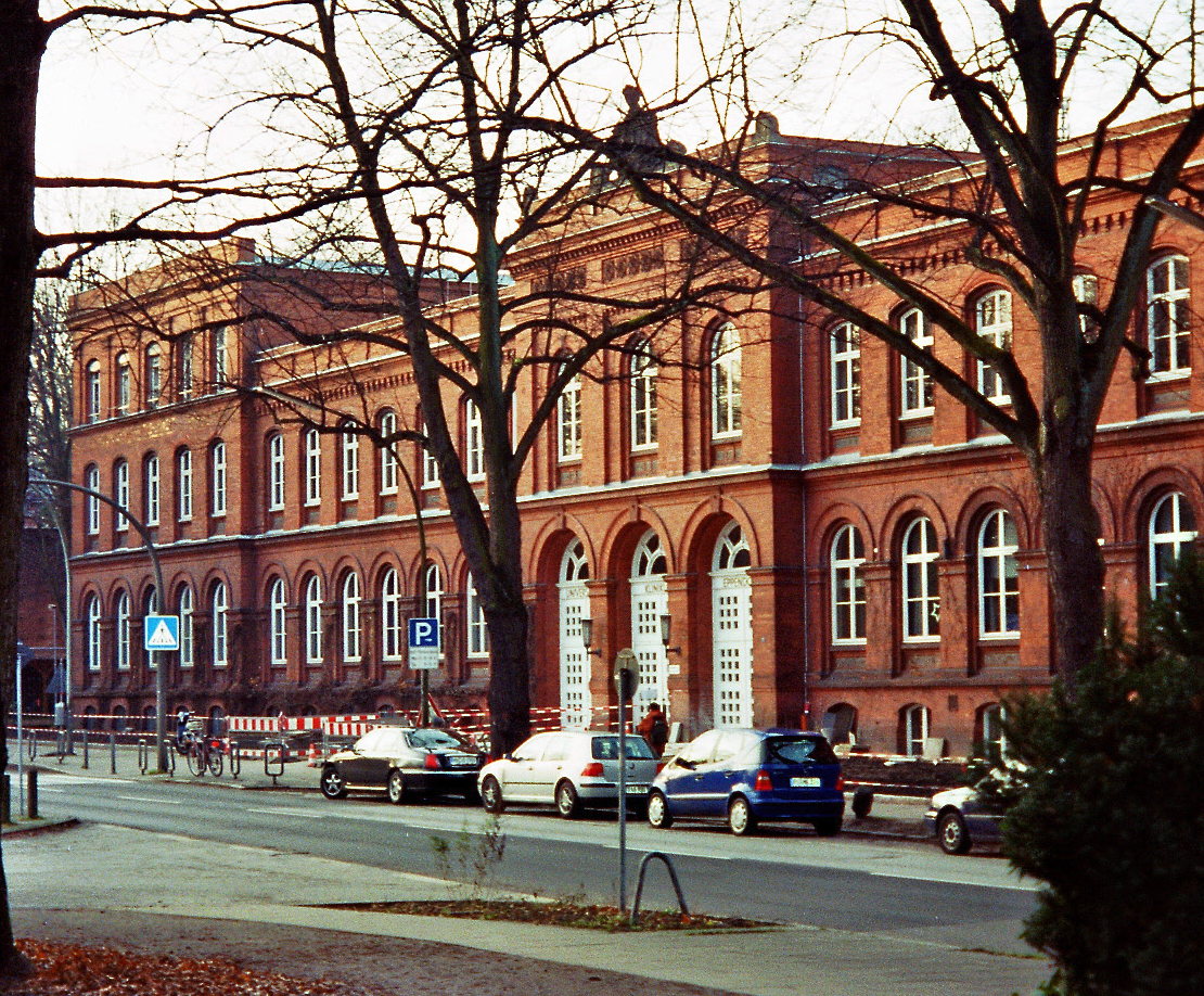 Historical main building at University Medical Center Hamburg-Eppendorf 2006